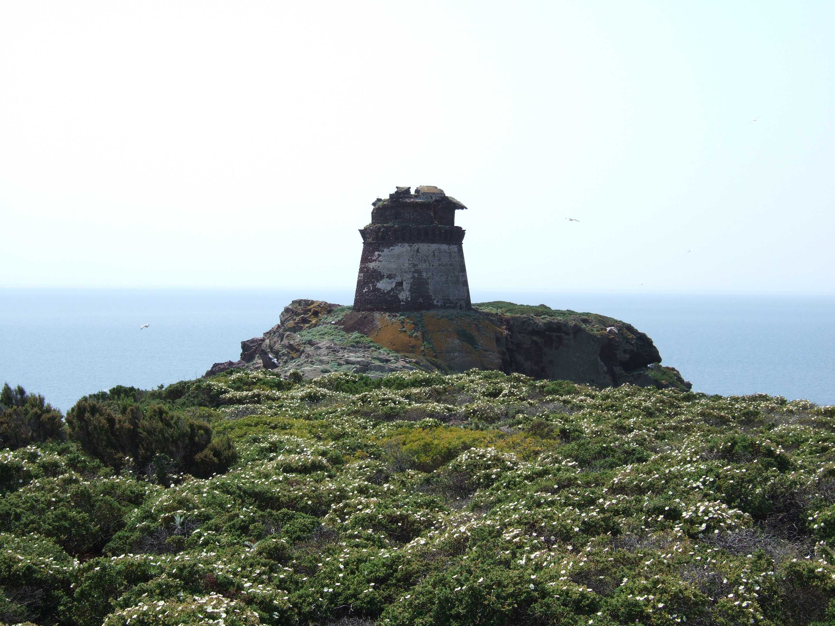 Torre dello Zenobito in Maquis shrubland — Capraia Isola. Within the Arcipelago Toscano National Park and marine sanctuary.